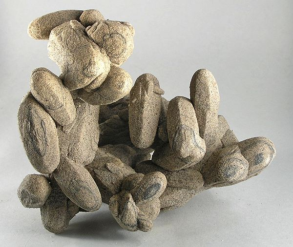 Calcite Locality: Rattlesnake Butte, Jackson County, South Dakota, USA (Locality at ) Size: 15.7 x 14.4 x 12.7 cm. Gary Hansen mined these amazingly sculptural "sand calcites" (calcites heavily included with desert sand) in South Dakota in the 1960s - and they have not been seen since. Though we have featured some really nice ones, this one is in a class by itself due to its prodigious size - making it truly look like an expensive piece of modern art - only NATURAL! Like the others, it is a floater, so there are no ugly areas, and you can display it from almost any direction with great visual impact!